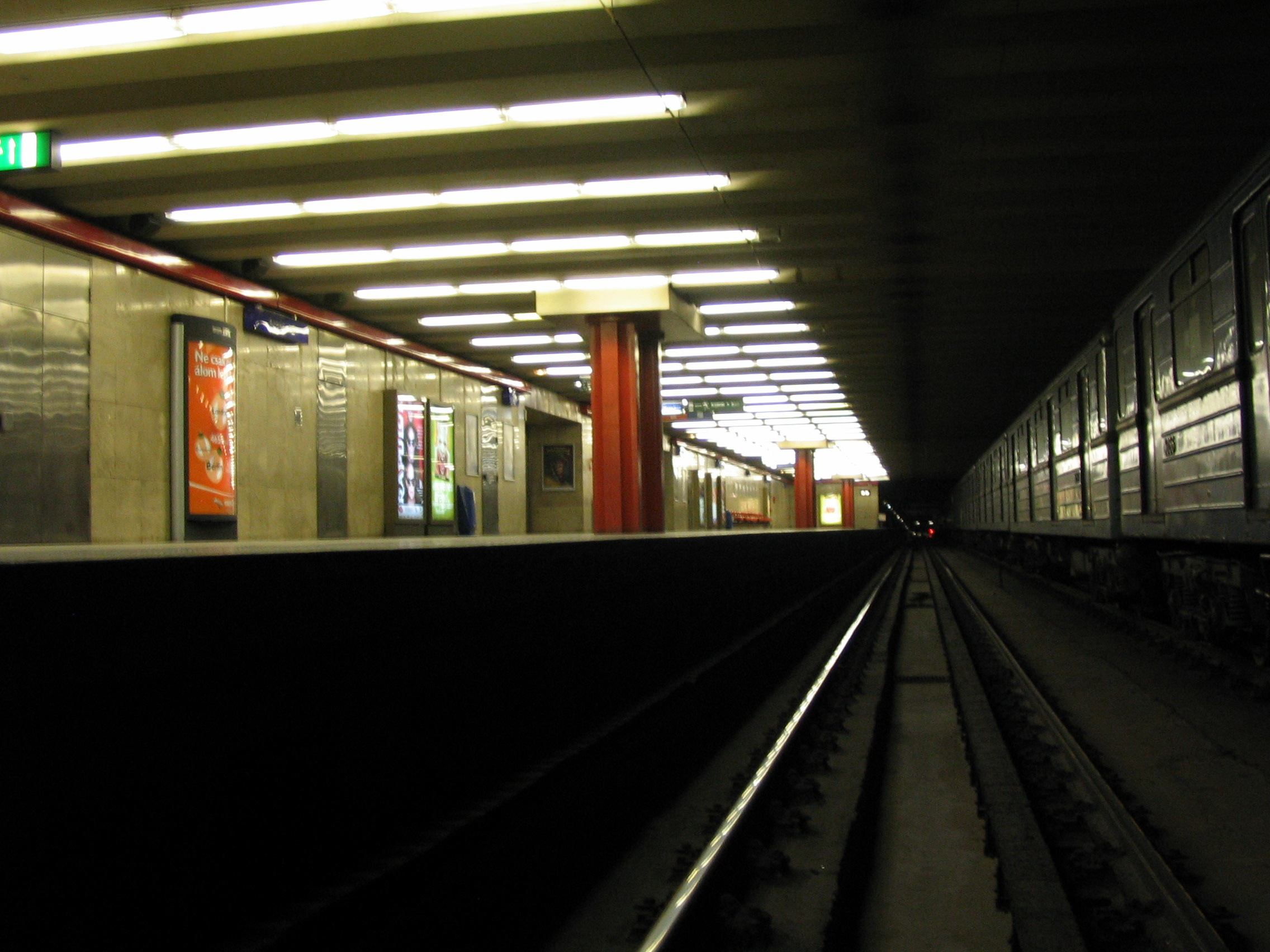 The Budapest metro station Árpád bridge See other pictures: metros.hu